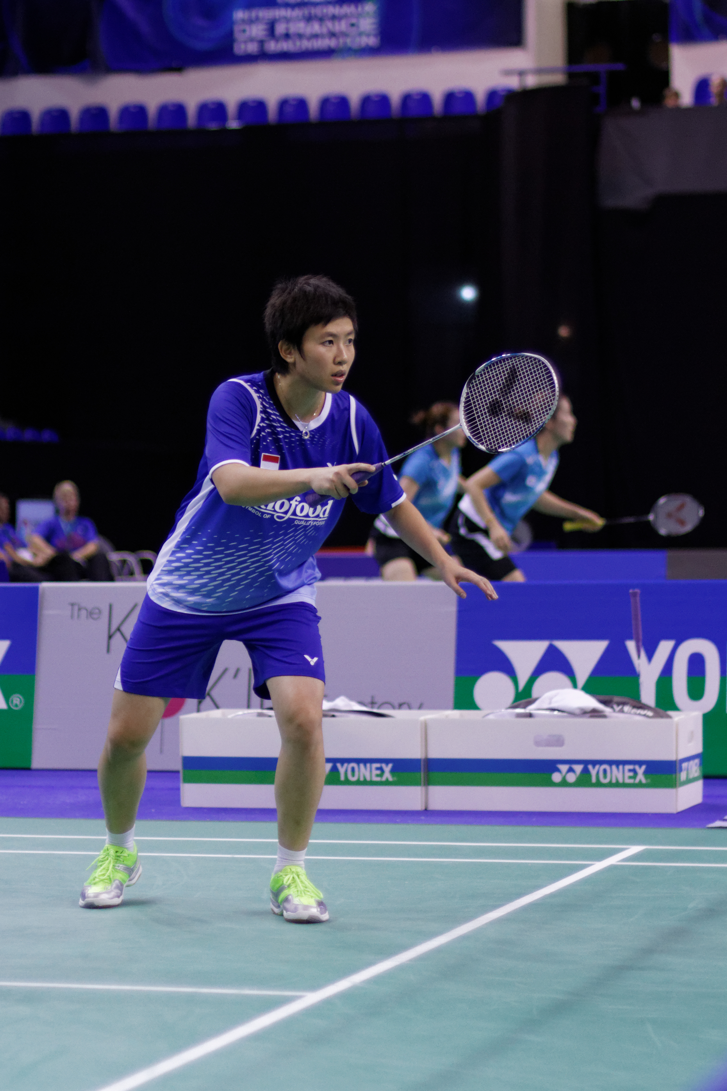 2013 French open. Mixed's doubles quarterfinal. Tontowi Ahmad - Liliyana Natsir vs Chris Adcock - Gabrielle White.